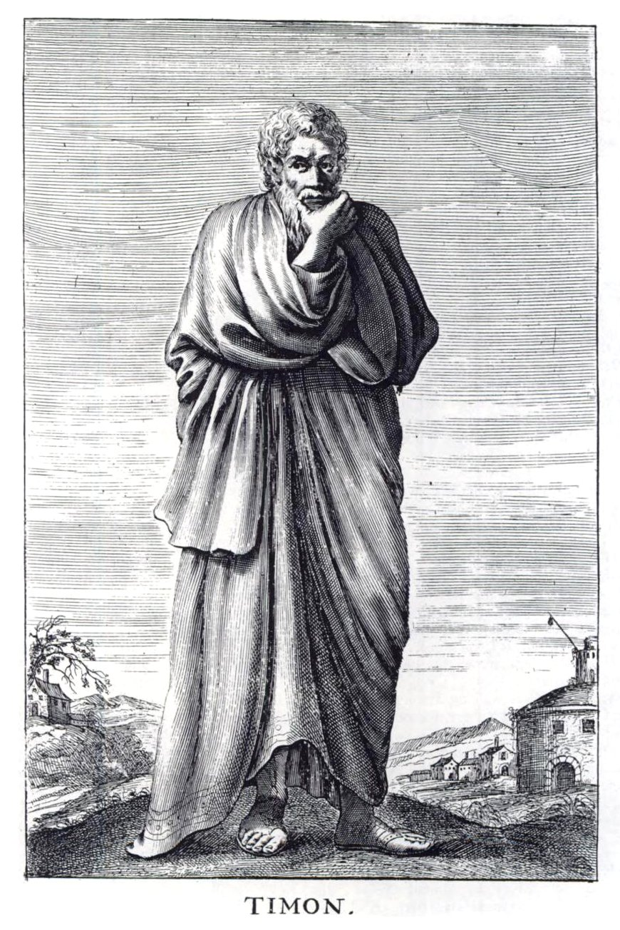 Timon of Phlius, ancient Greek Skeptic philosopher. From Thomas Stanley, (1655), The history of philosophy: containing the lives, opinions, actions and Discourses of the Philosophers of every Sect, illustrated with effigies of divers of them.